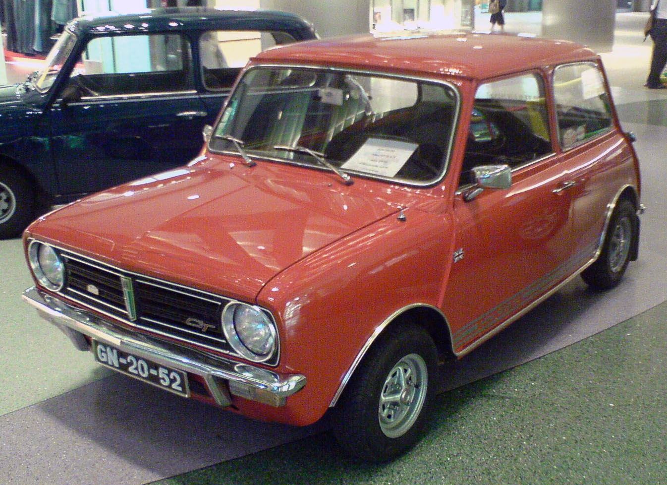 A Mini 1275 GT from 1974. Photographed inside the Dolce Vita shopping in Porto.